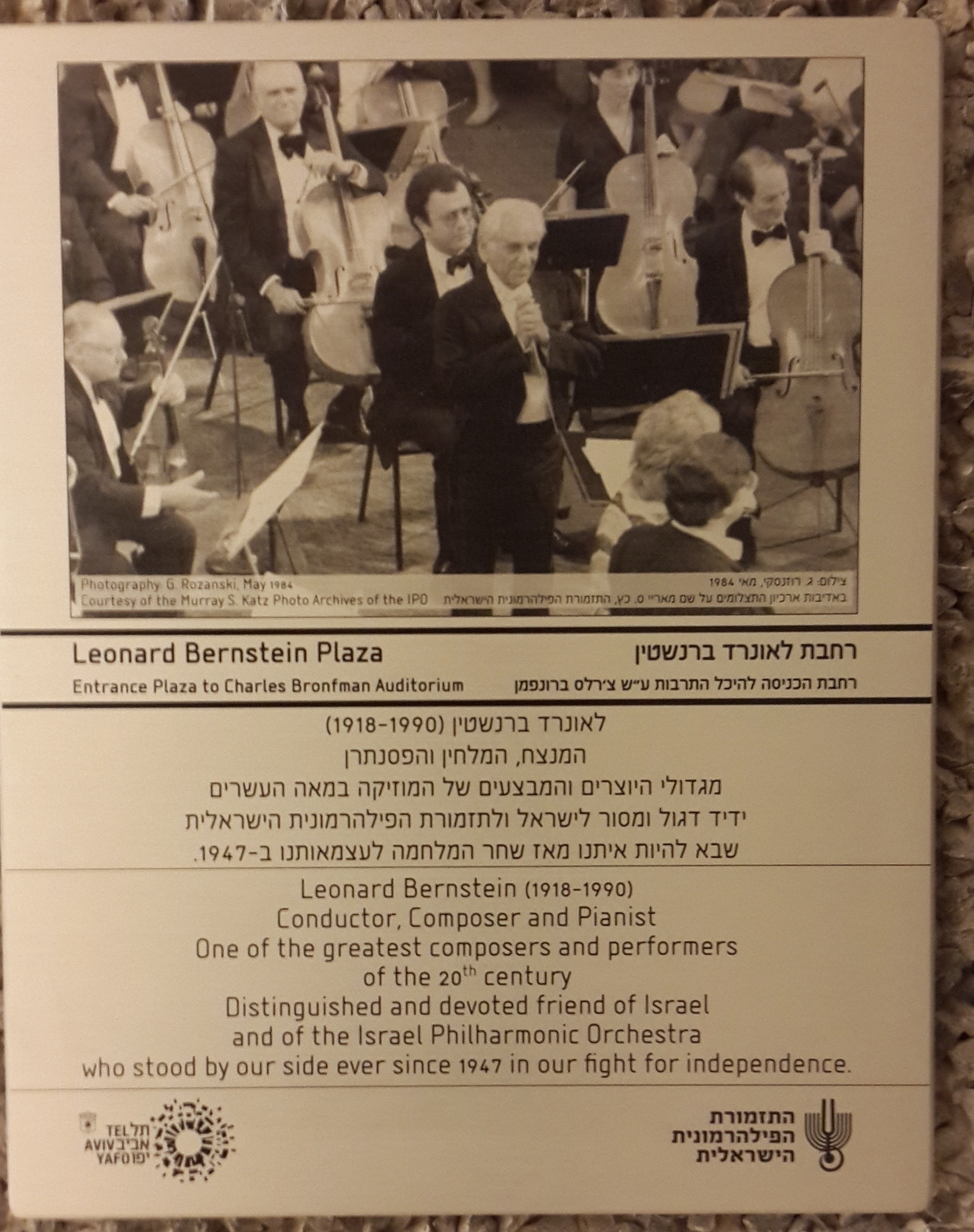 Entrance Plaza to Charles Bronfman Auditorium